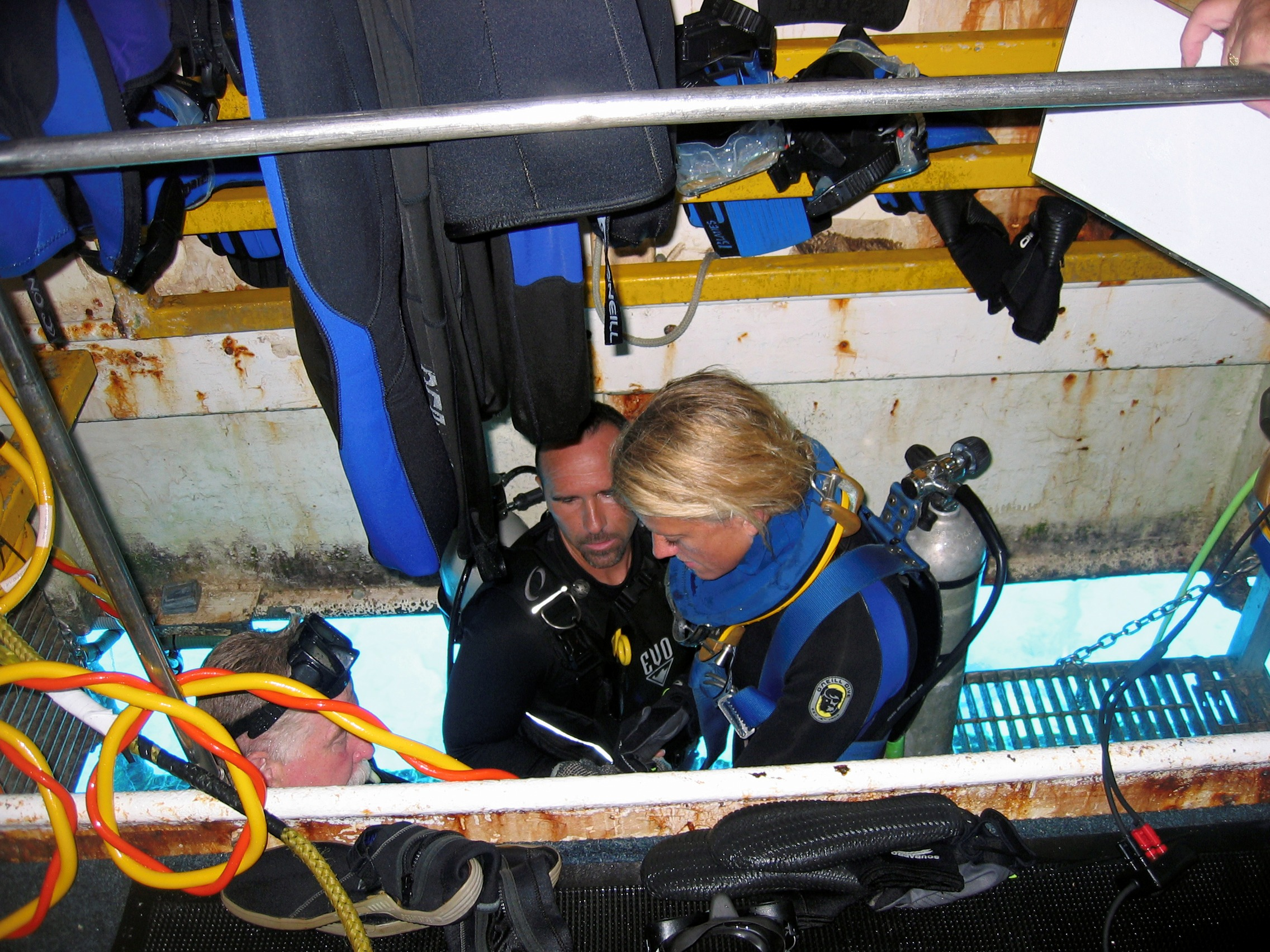 NASA astronaut Karen L. Nyberg suits up for the first EVA of the NASA-NOAA NEEMO 10 undersea exploration mission, conducted from the Aquarius underwater laboratory off Key Largo, Florida. Assisting Nyberg are Aquarius Operations Director Craig B. Cooper (left) and instructor Roger Garcia. NASA photo JSC2006-E-30801 in public domain.